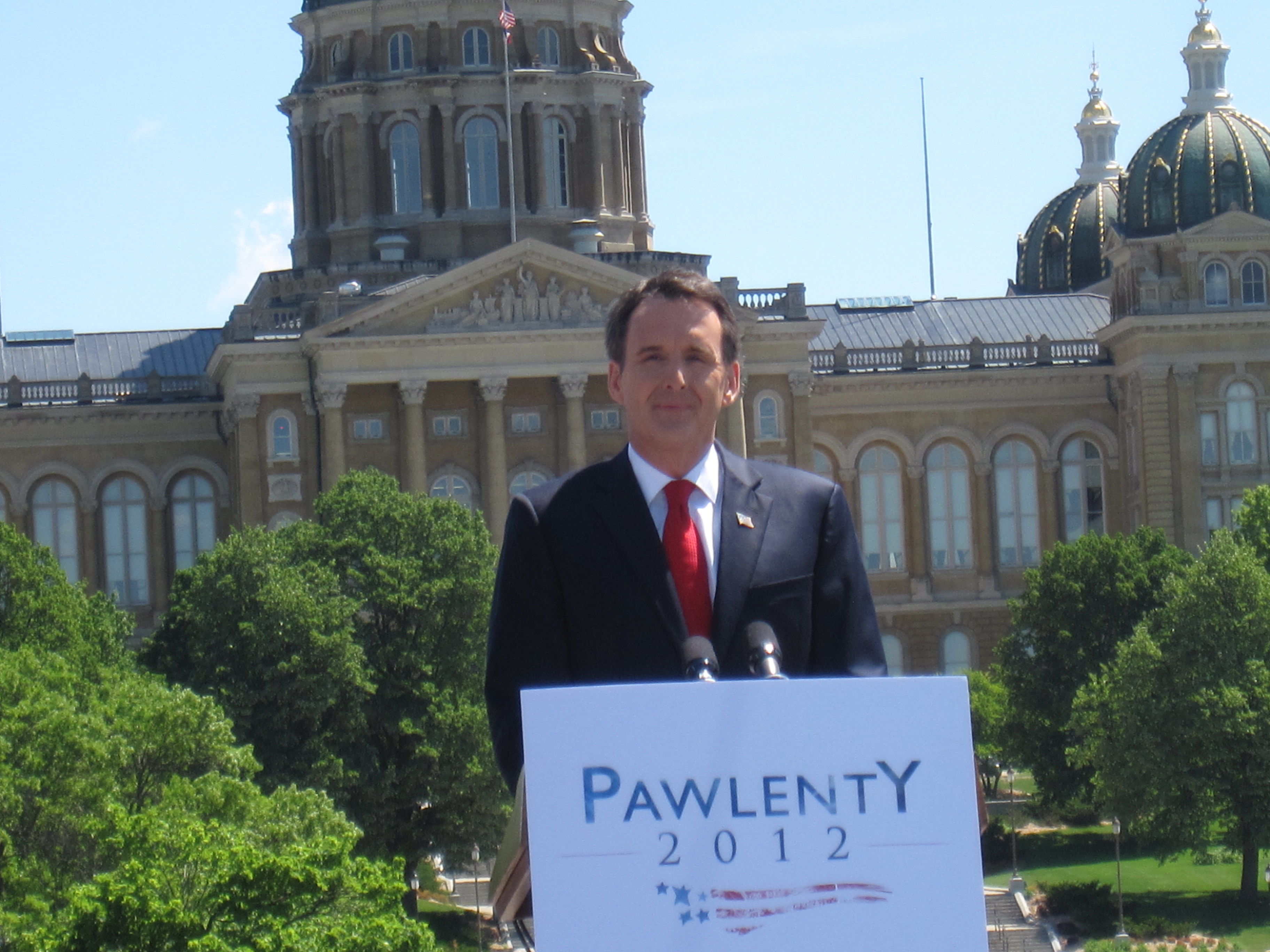 Pawlenty campaign kickoff in Des Moines 014